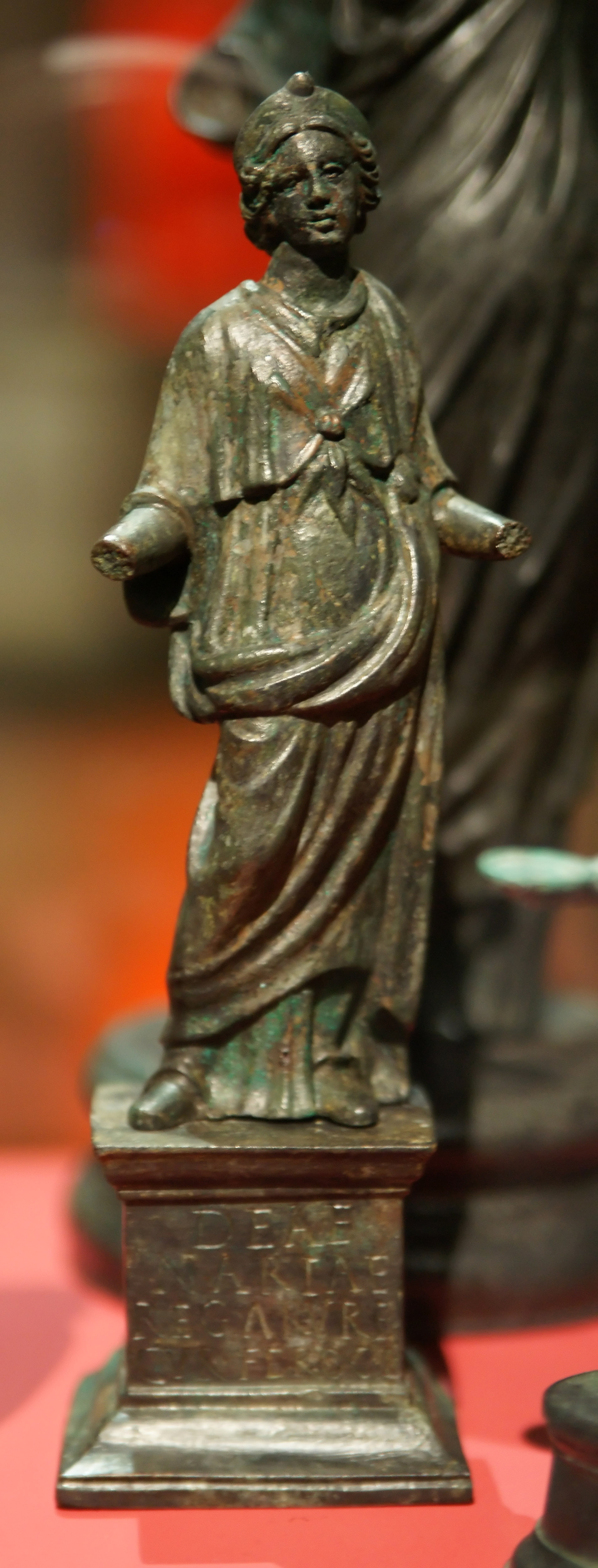 The statuette of the Celtic goddess Naria from the Muri statuette group.